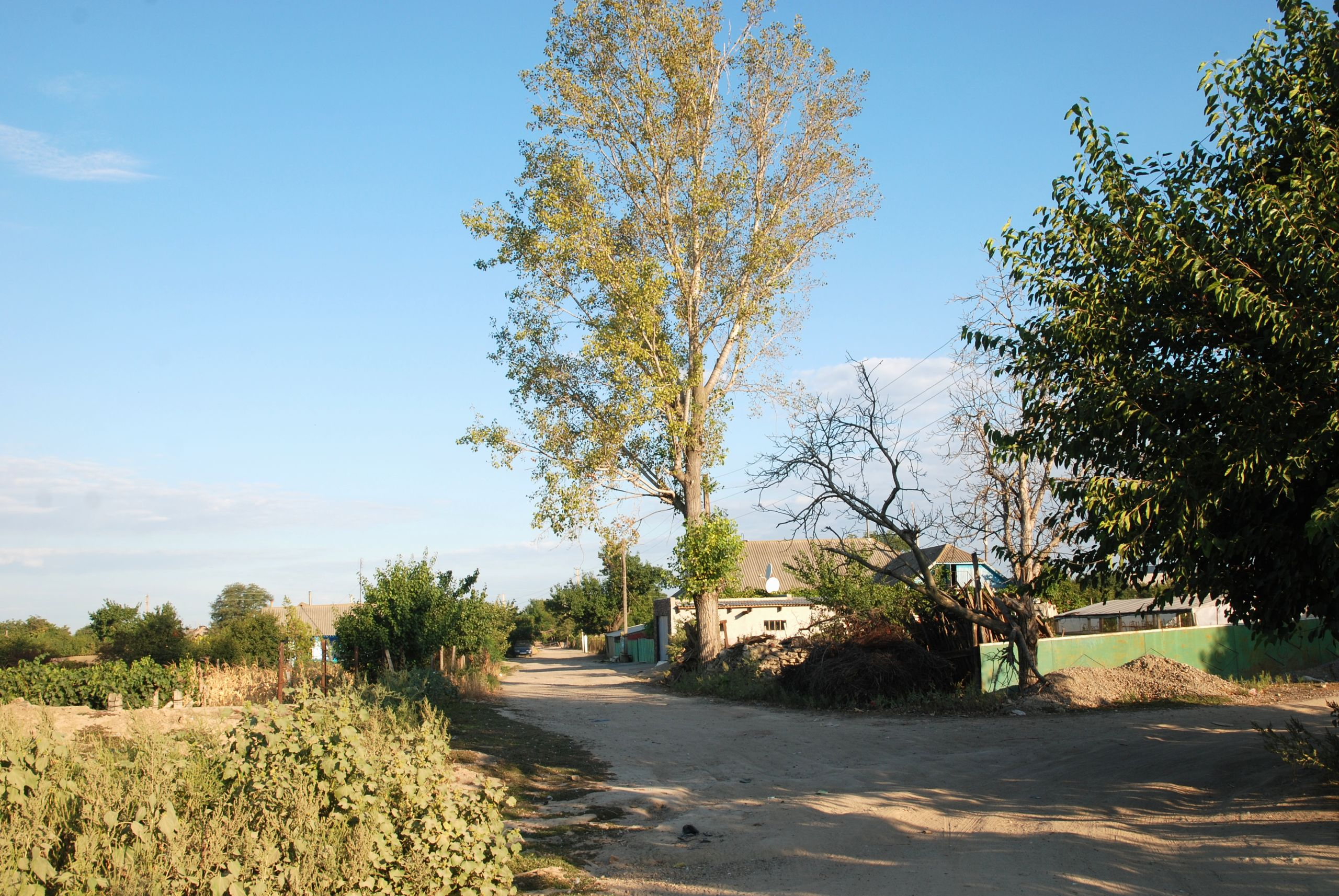 Giurgiulești